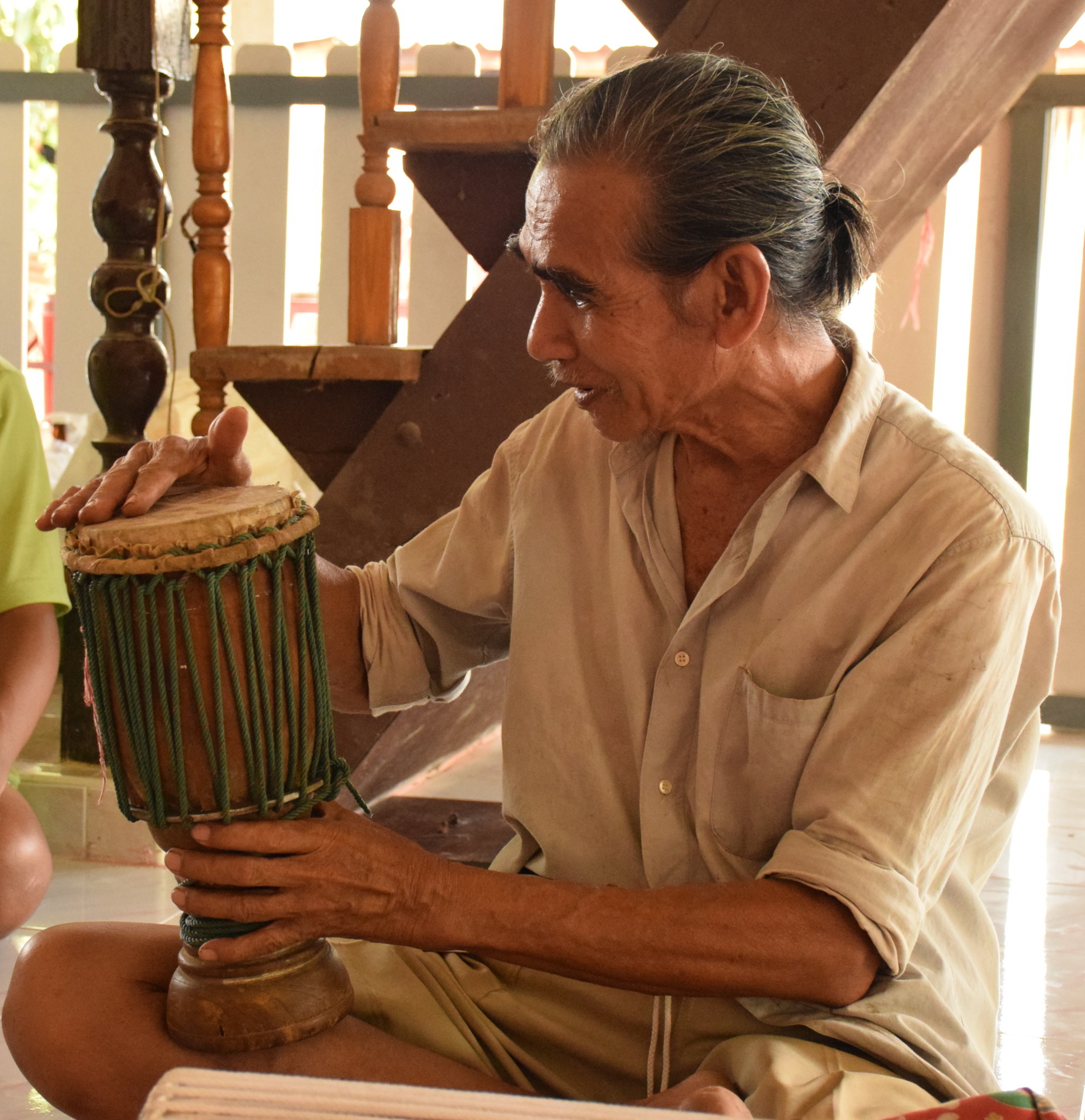 MR.PRACHOM VONGPINIT (1943-) : THE LAST OF MANGKALA TRADITIONAL FOLK PROCESSION BAND IN NORTH OF THAILAND (NORTH UTTARADIT PROVINCE) . at Wat Kungtapao Local Museum, Ban Khung Taphao, Khung Taphao subdistrict, Mueang Uttaradit, Uttaradit Province, Thailand.) on April 18, 2015. Date2015SourceOwn workAuthor ผู้สร้างสรรค์ผลงาน/ส่งข้อมูลเก็บในคลังข้อมูลเสรีวิกิมีเดียคอมมอนส์ - เทวประภาส มากคล้าย Permission (Reusing this file)